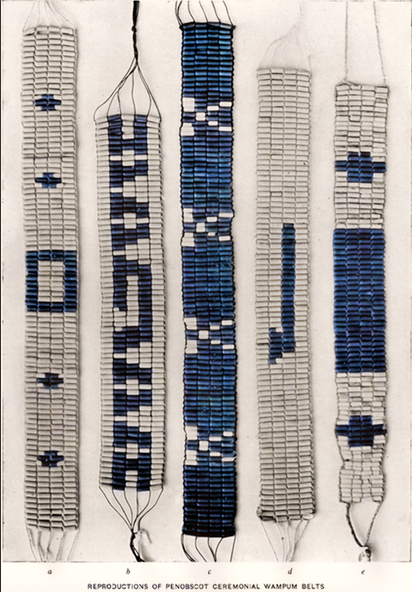 A belt that is largely white is to denote peace, when it is largely blue it denotes conflict. Going from left to right. A. The first belt represents a peace mission. The four dots are to denote the Miꞌkmaq, Maliseet, Passamaquoddy, and Penobscot. The middle square is to denote a council fire, a government meeting. B. This belt represents the union of the tribes as Wabanaki. The four symbols, being wigwams, reperesent the Miꞌkmaq, Maliseet, Passamaquoddy, and Penobscot. The middle object is a peace pipe and represents the peace ceremony that brought and brings the union of Wabanaki together. C. This is the war belt. The four symbols are tomahawks represent the four tribes. It would be used as a way to get people in a town together to call them to arms to fight an enemy attacking the nation. D. This is a peace belt, with a peace pipe. It would be use to inform people that peace has been made. It was also worn to summon leader to a consul fire over peace proposals. E. Was a belt used in the election of a new chief/sakom. Upon the death of a chief, a year of mourning would take place. Once done, members of the other 3 tribes would come they would all take part in electing a new leader.